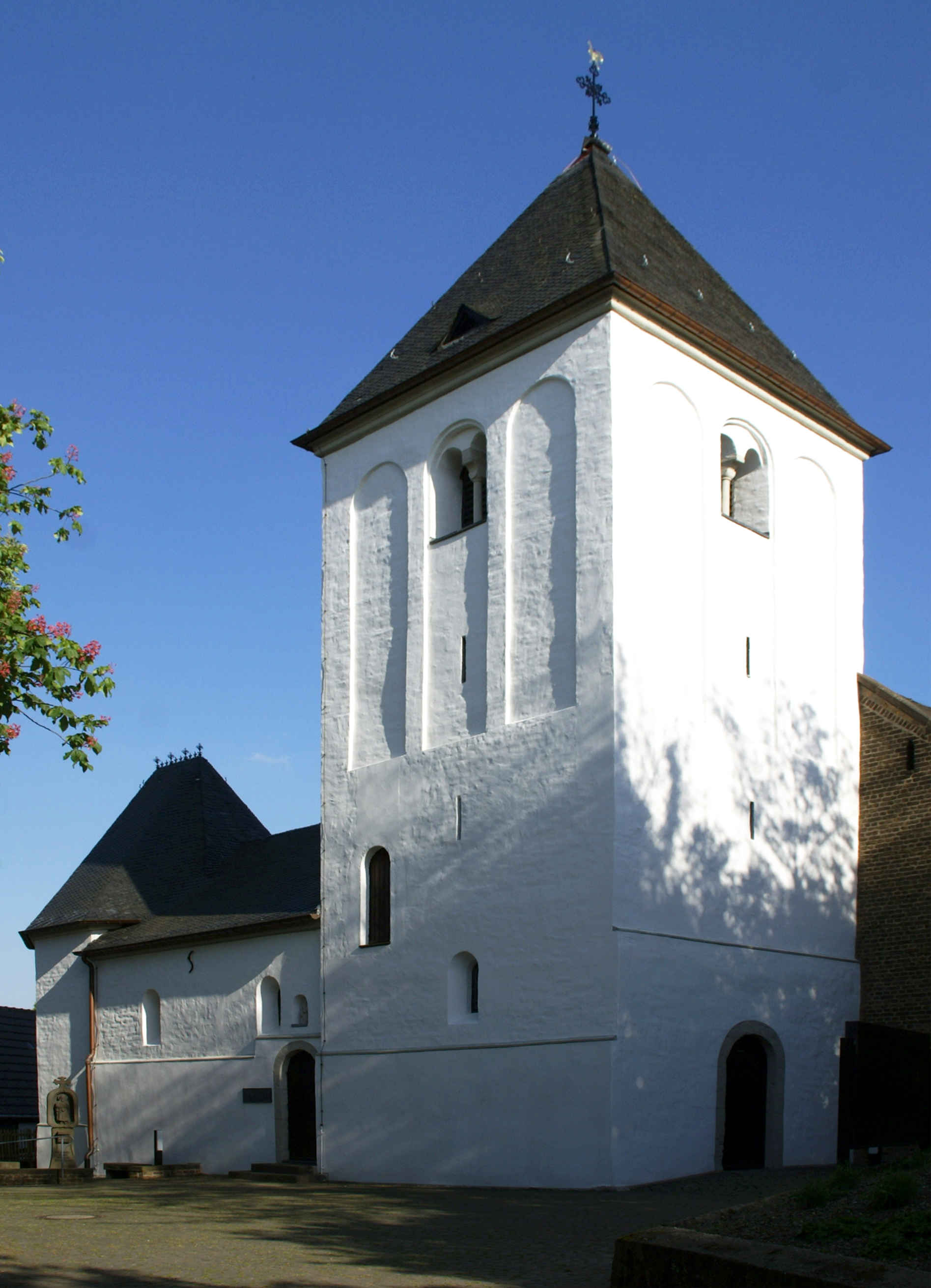 Catholic church of St. Jakobus in Gielsdorf, Alfter